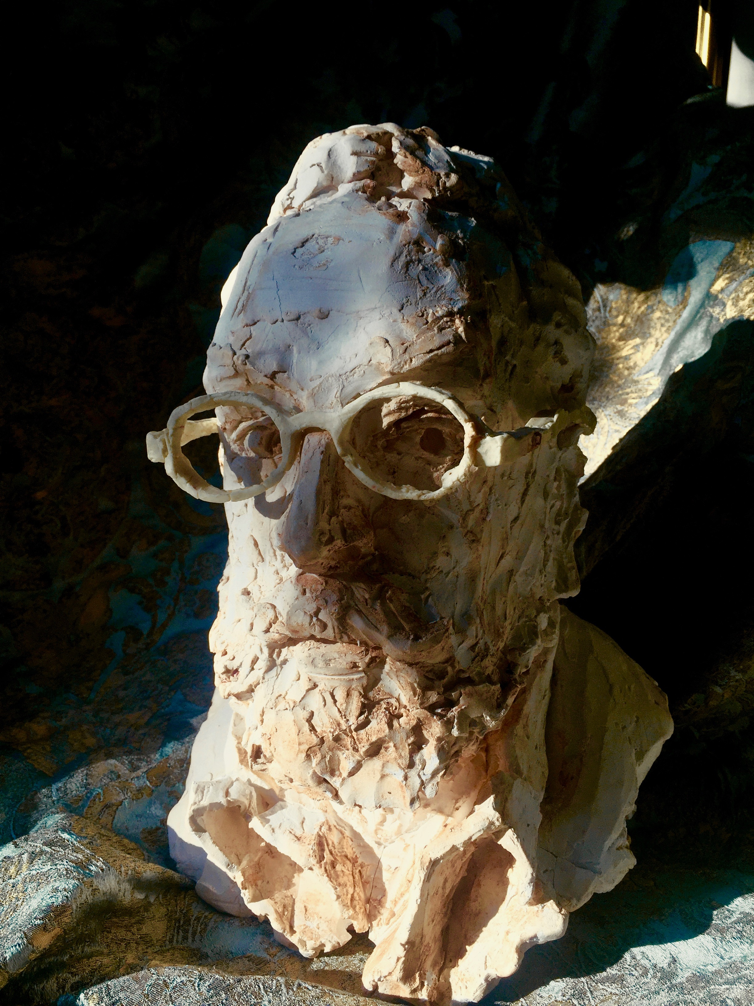 Michael Howells Bust by R Martin